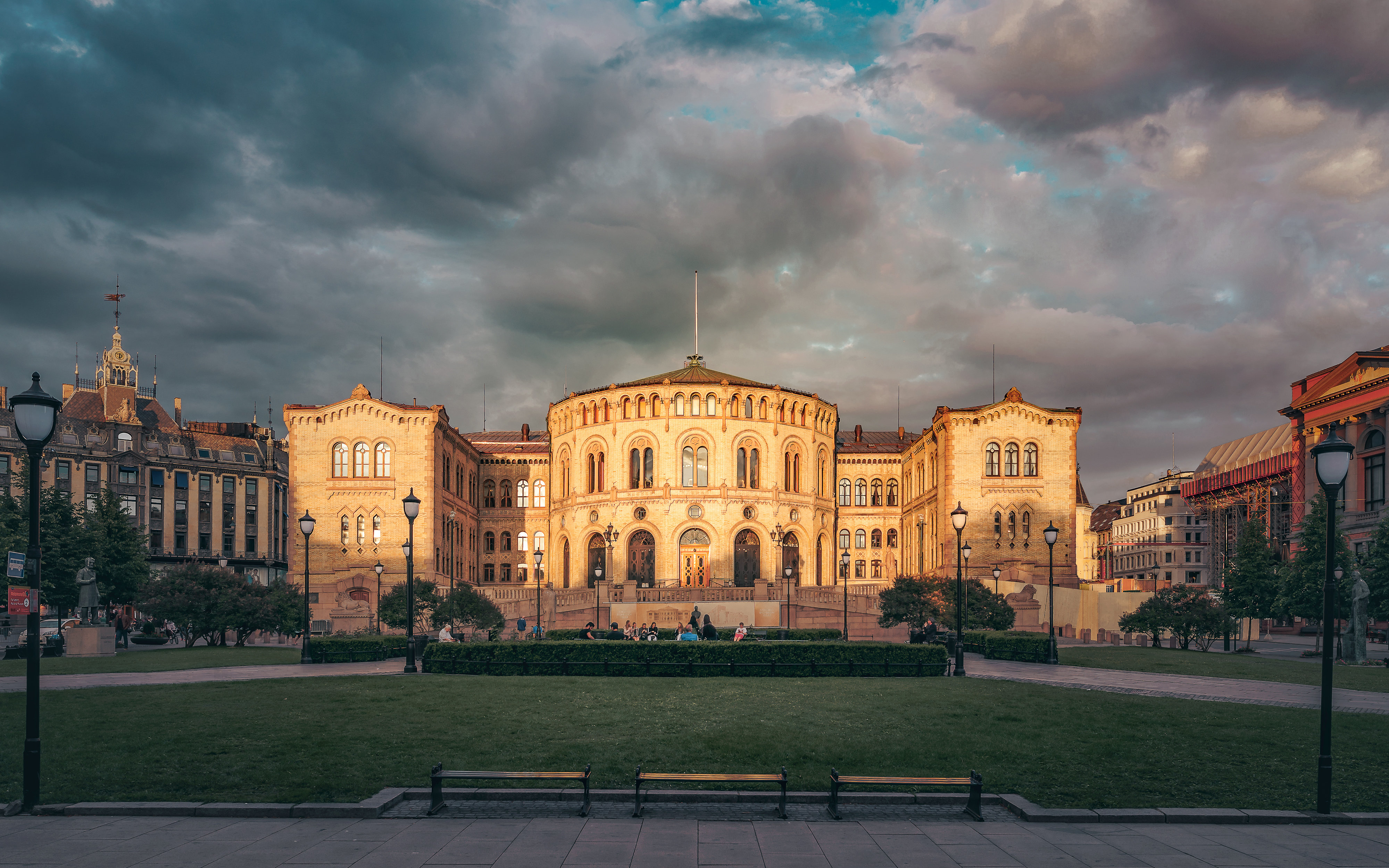 Parliament Dramatic Sunset